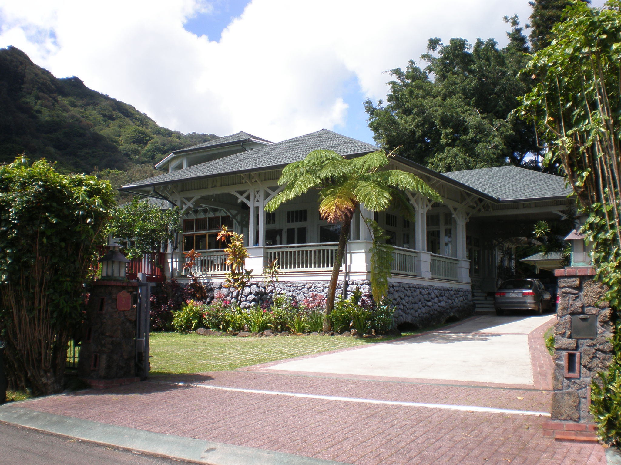 Edgar and Lucy Henriques House, 20 Old Pali Road, Honolulu, Hawaii, on National Register of Historic Places